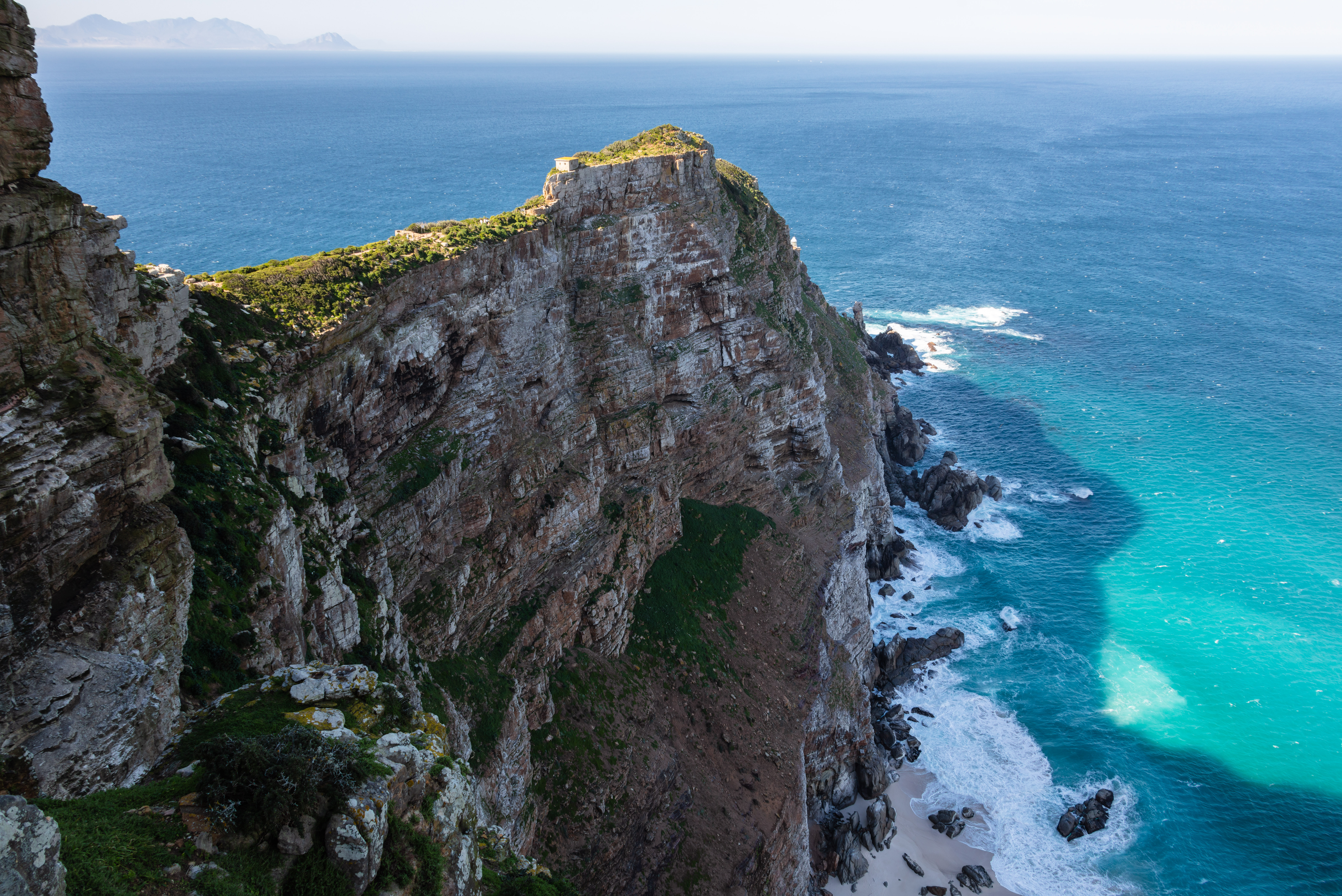 Cape Point, South Africa